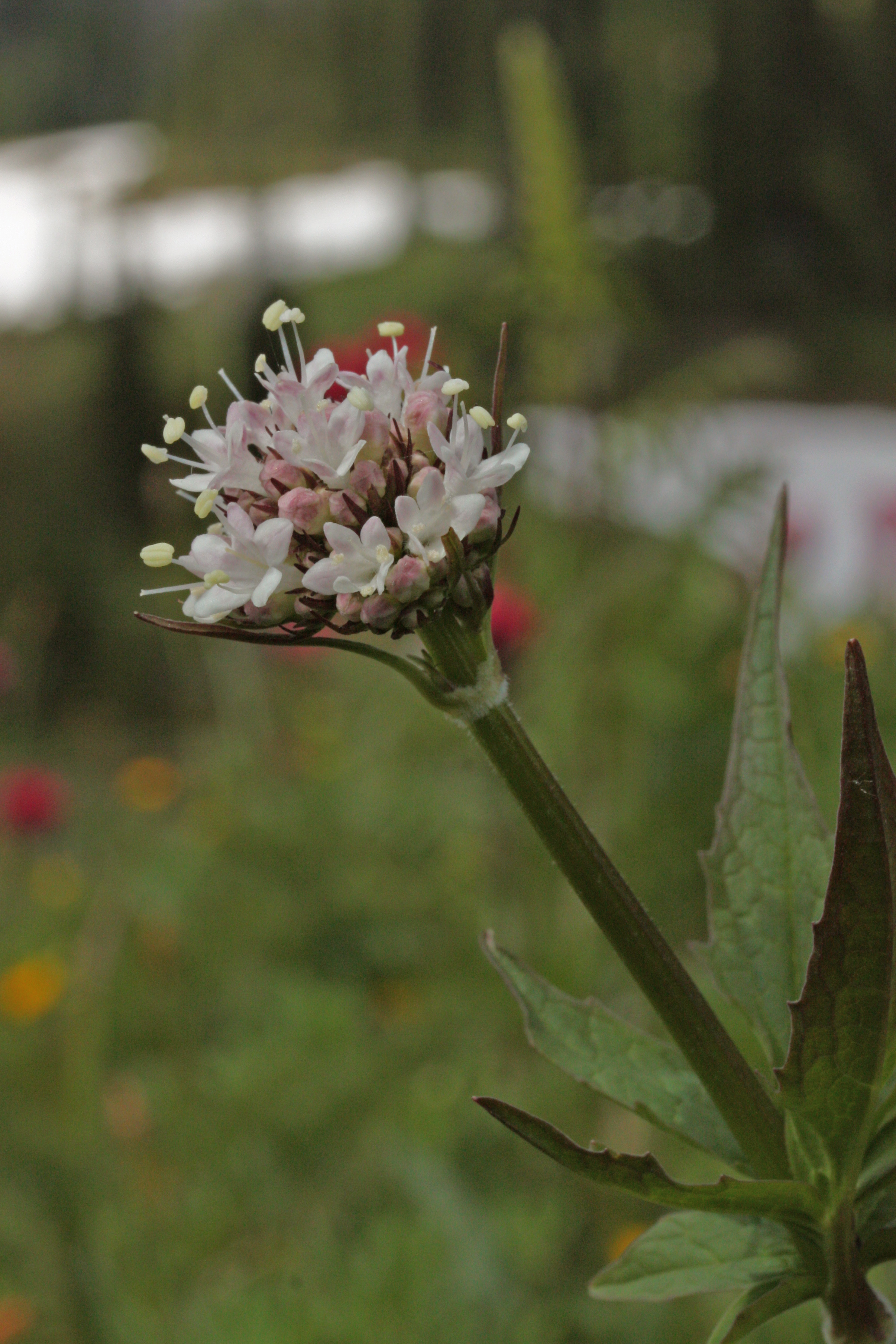 Sitka Valerian